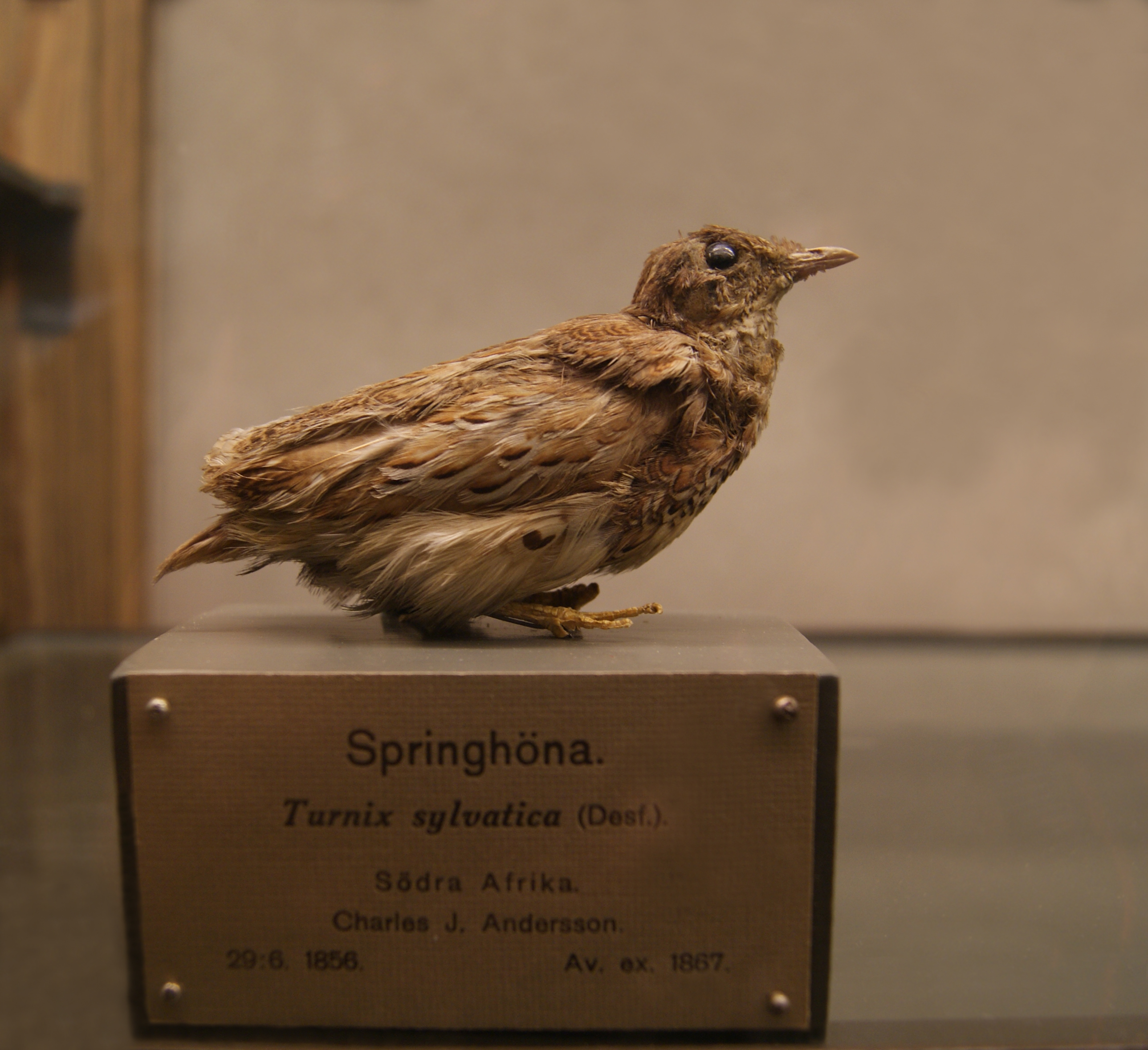 A Small Buttonquail (Turnix sylvatica), from the southern part of Africa, on display in Göteborgs Naturhistoriska museum (Gothenburg Museum of Natural History). It became part of the collections in 1856.